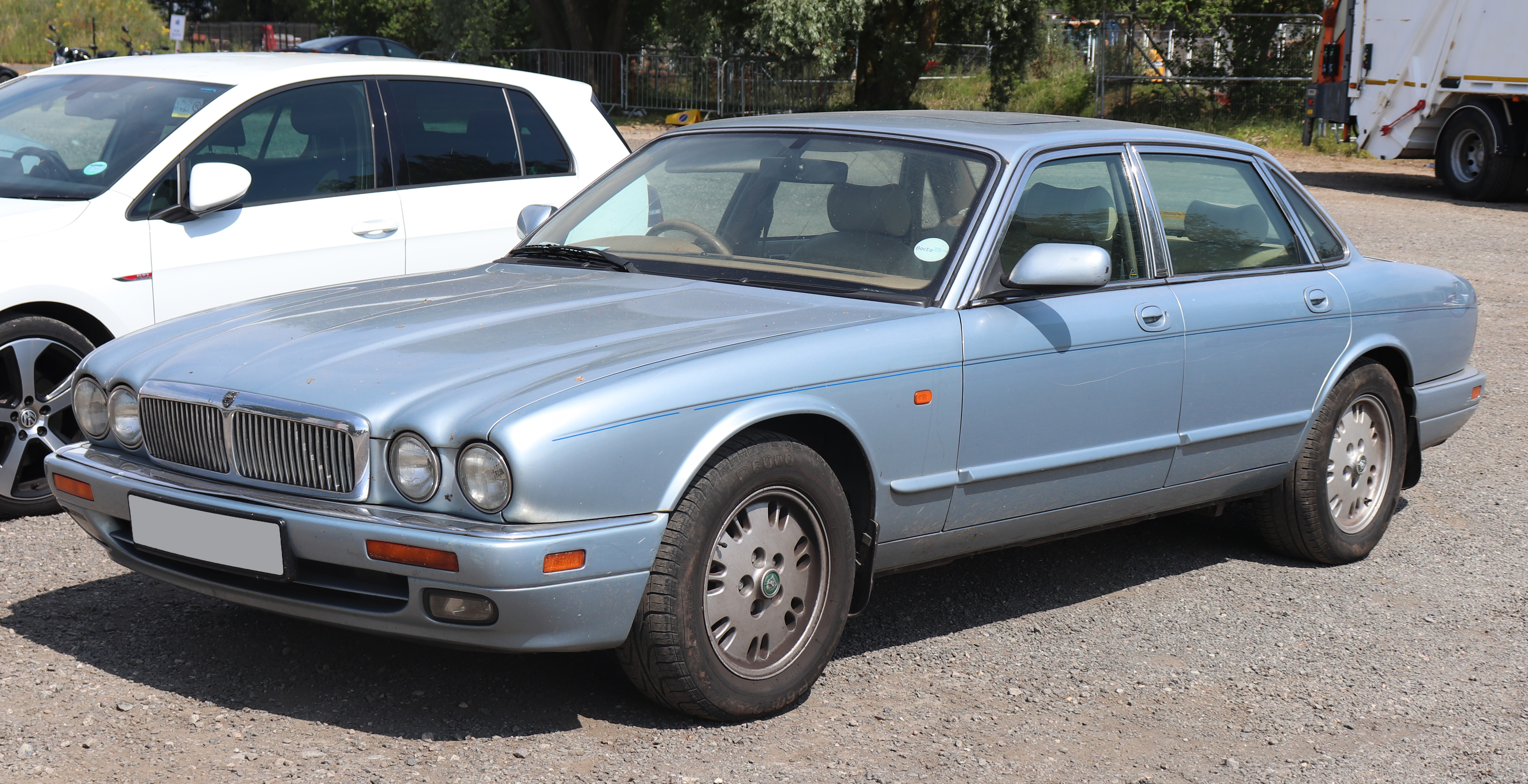 1995 Jaguar Sovereign 4.0 Taken at the British Motor Museum BMC & Leyland Show 2018, Gaydon